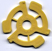 45 rpm record insert